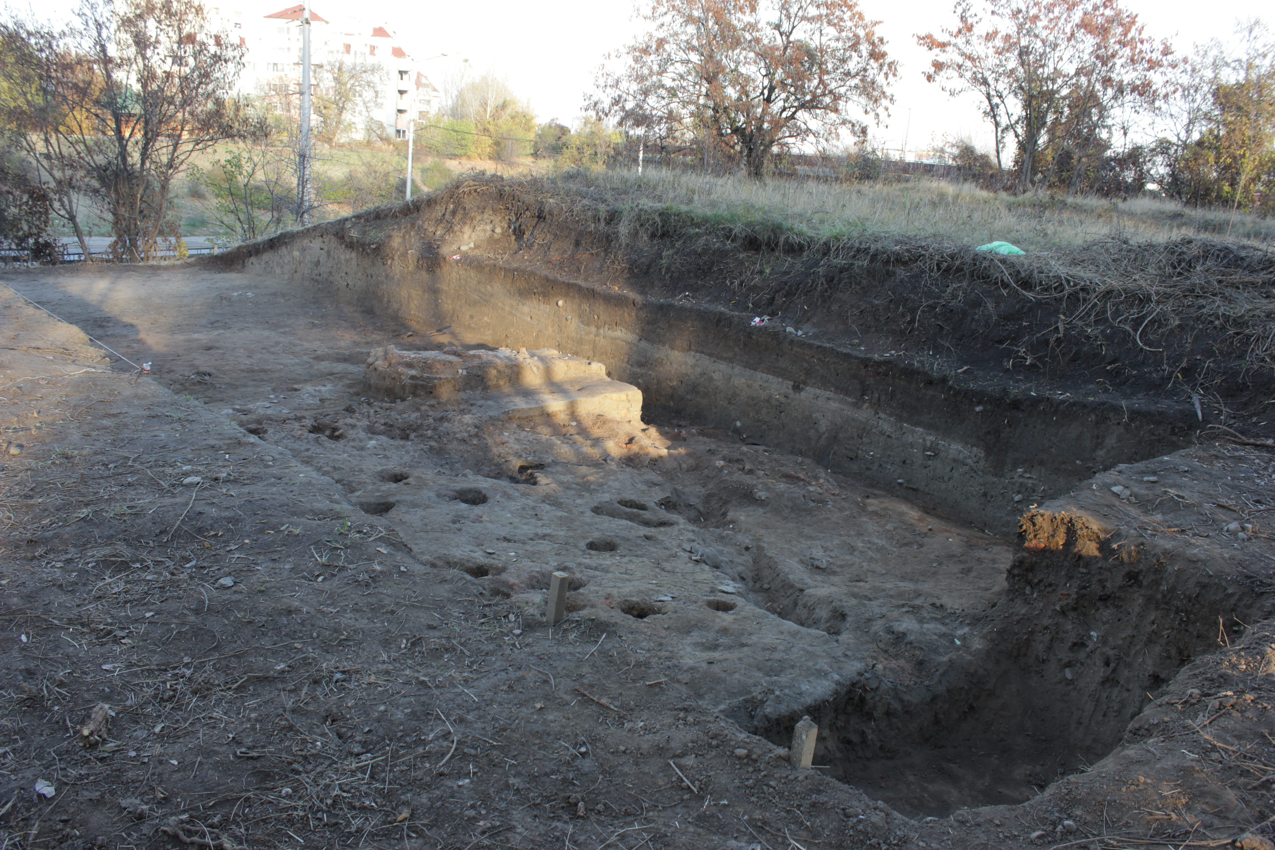 Archeological excavations in Neolithic Settlement of Slatina